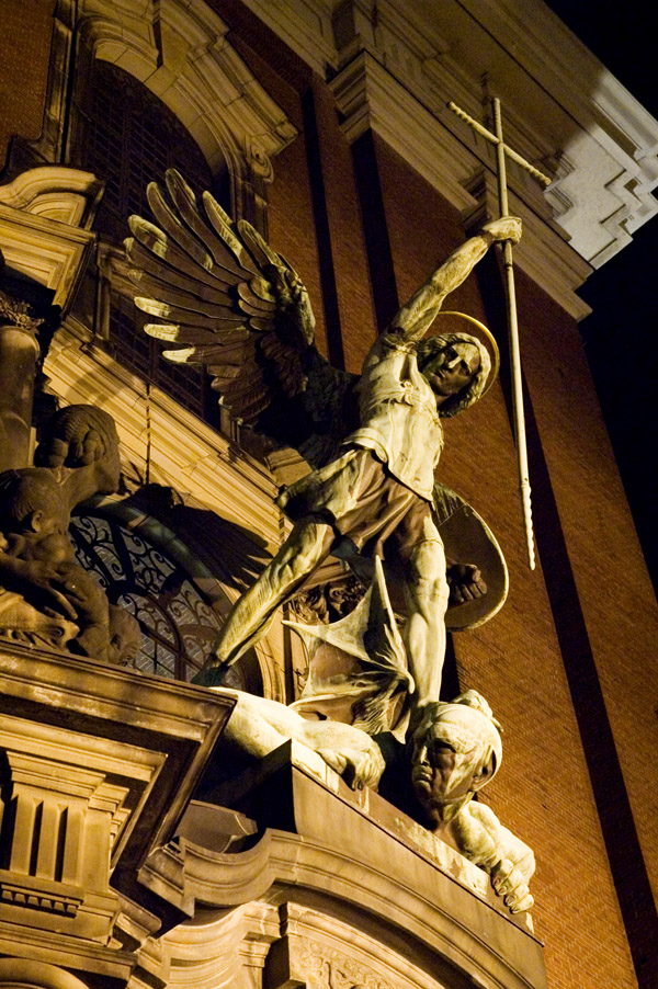 Statue of Archangel Michael by August Vogel above the main gate of the church Sankt Michaelis in Hamburg/Germany.